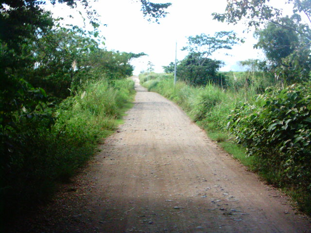 Picture taken by exec8 as a special project for the Municipal Government of Quezon. The user grants any entity the right to use this work for any purpose, without any conditions.